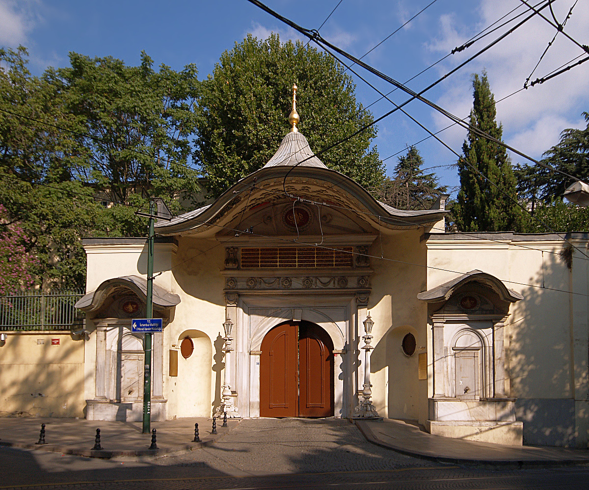 Sublime Porta